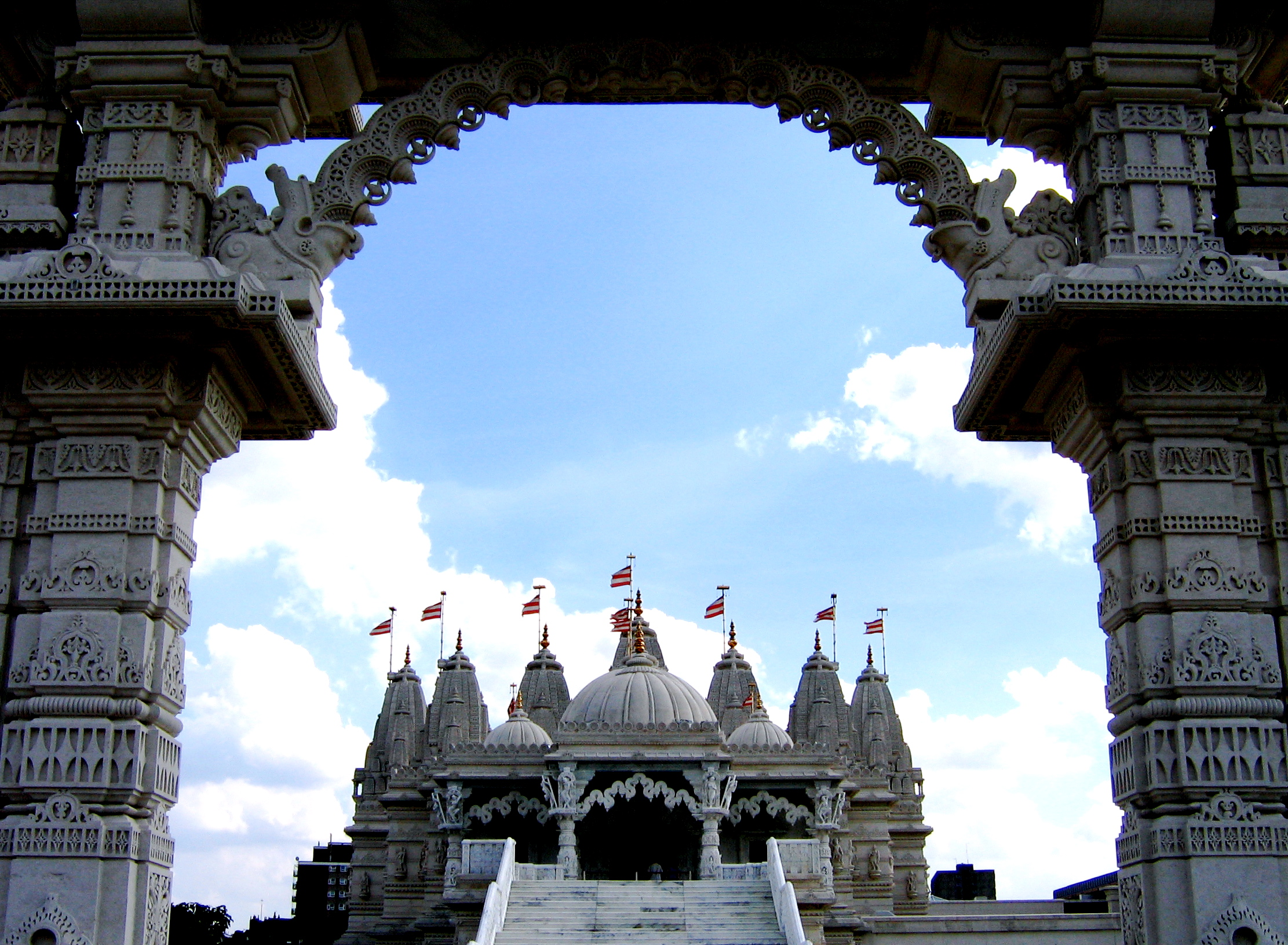 Neasden Temple - Shree Swaminarayan Hindu Mandir, London, UK.